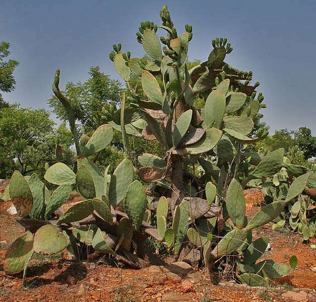 Indian Fig in Secunderabad, India.